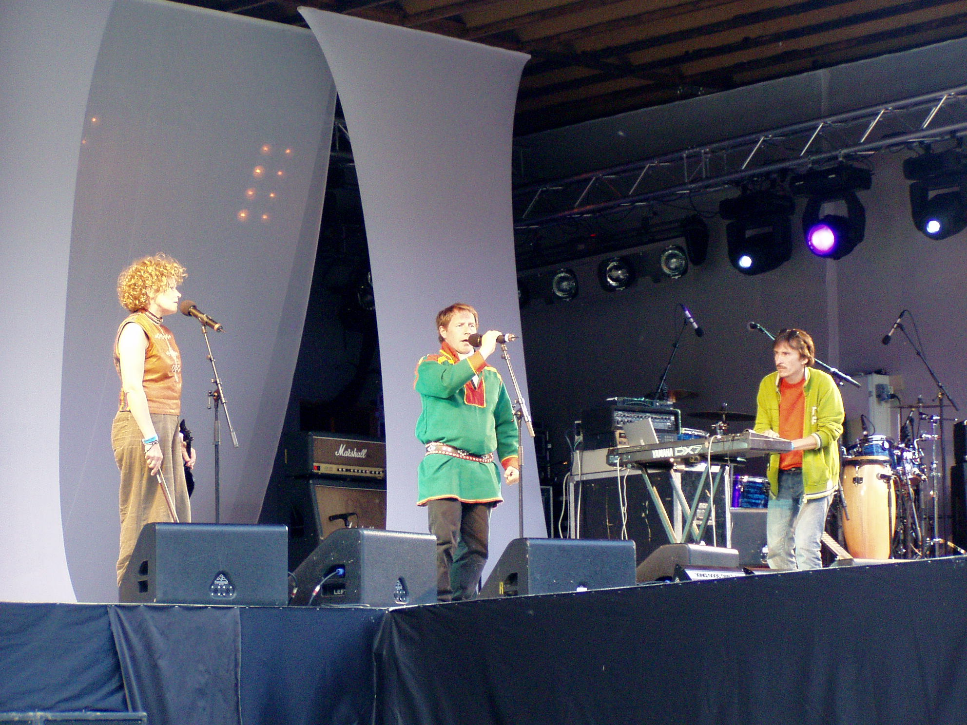 Music grup Vajas on Festival of Riddu Riđđu of natural cultures in Norway, 2007